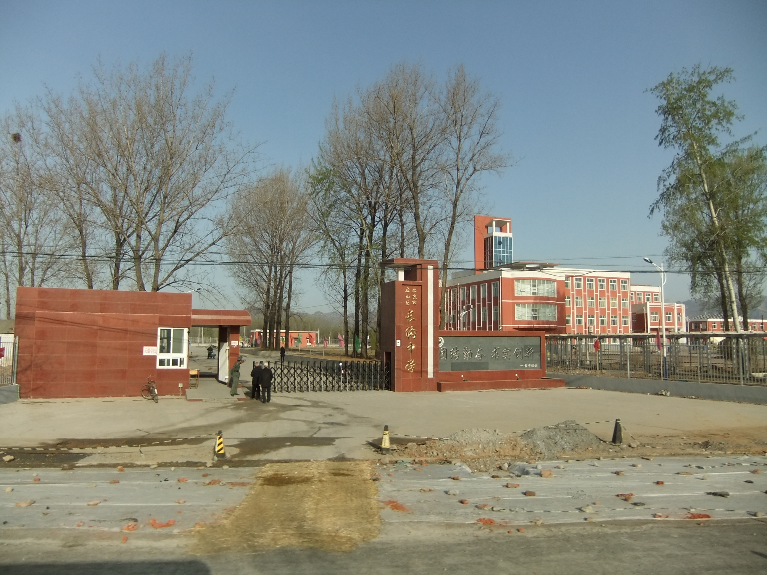 长沟中学 - Changgou Middle School - 2011.04